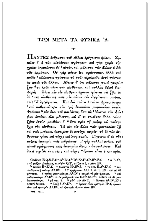 Aristotle: Metaphysica, first page in Immanuel Bekker's edition, 1837.